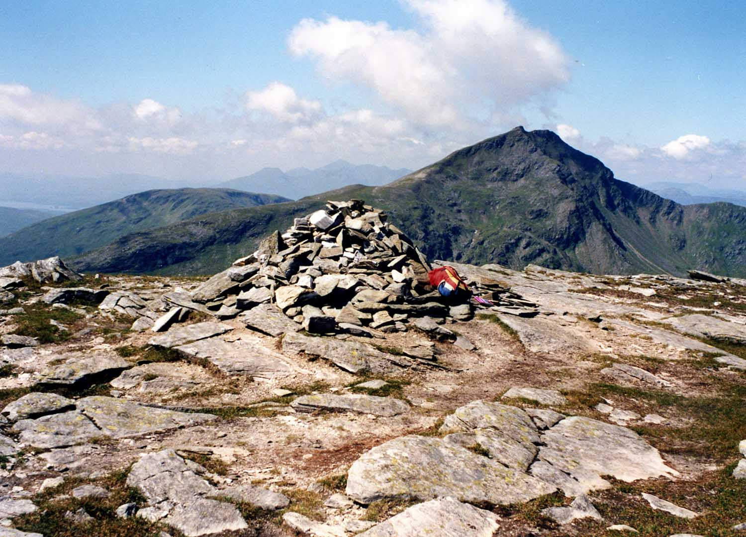 Personal picture taken by Mick Knapton